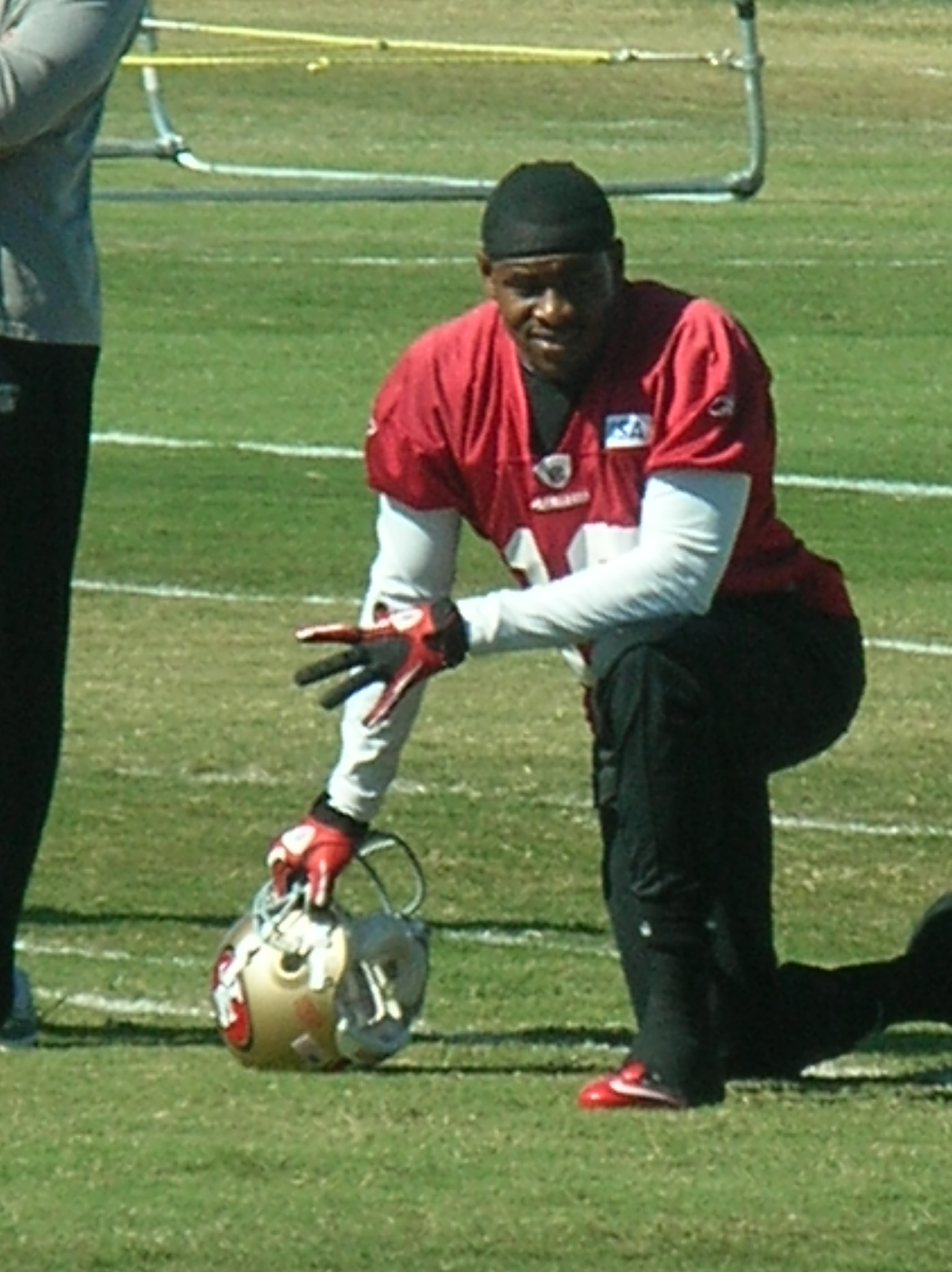 San Francisco 49ers wide receiver Ted Gin, Jr. at training camp in Santa Clara, California.